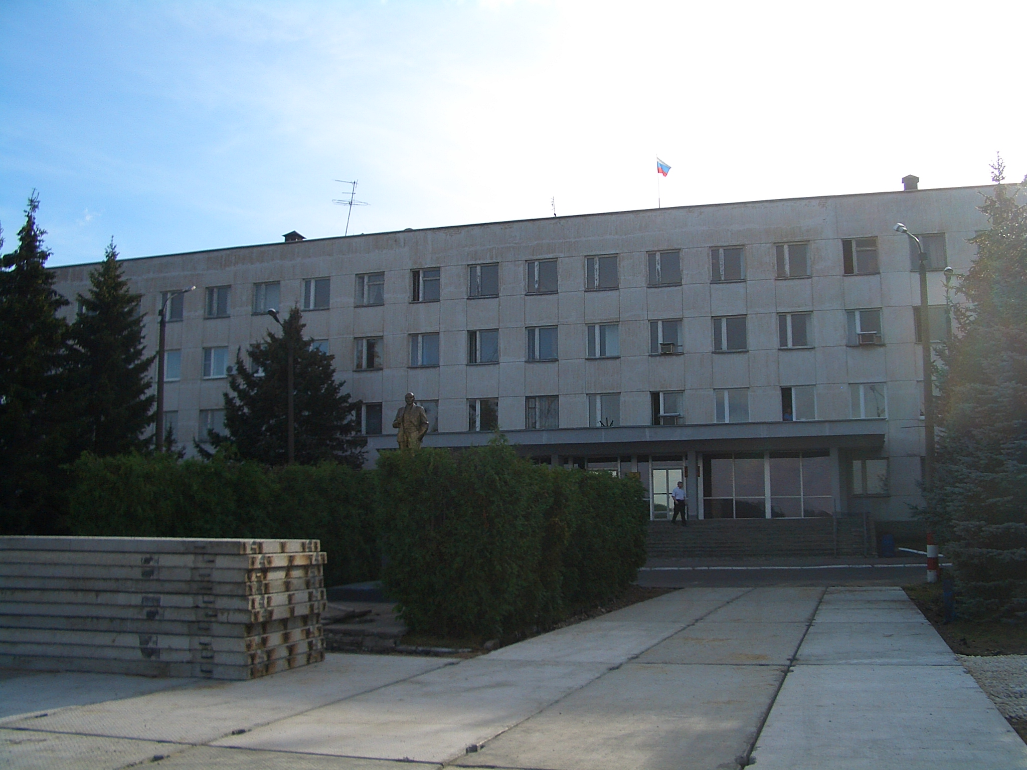 The District Administration building in Balakhna. It faces the Volga (not in the picture). Originally it was probably built for the District Soviet and/or Communist Party office.)